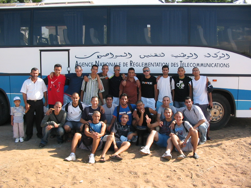 L'excursion hibernale vers Tanger